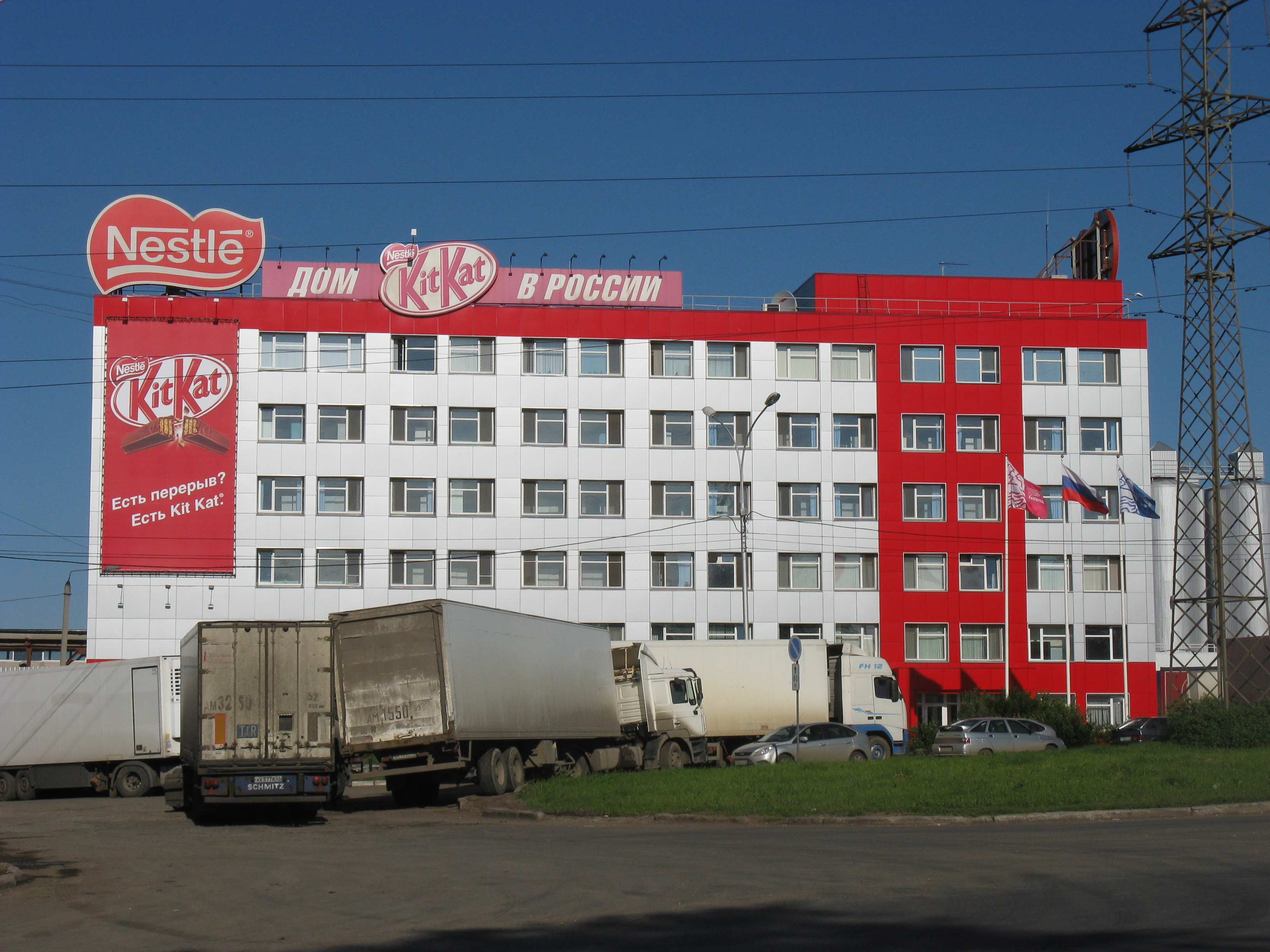 Confectionery factory "Kamskaya" in Perm (belongs Nestlé)